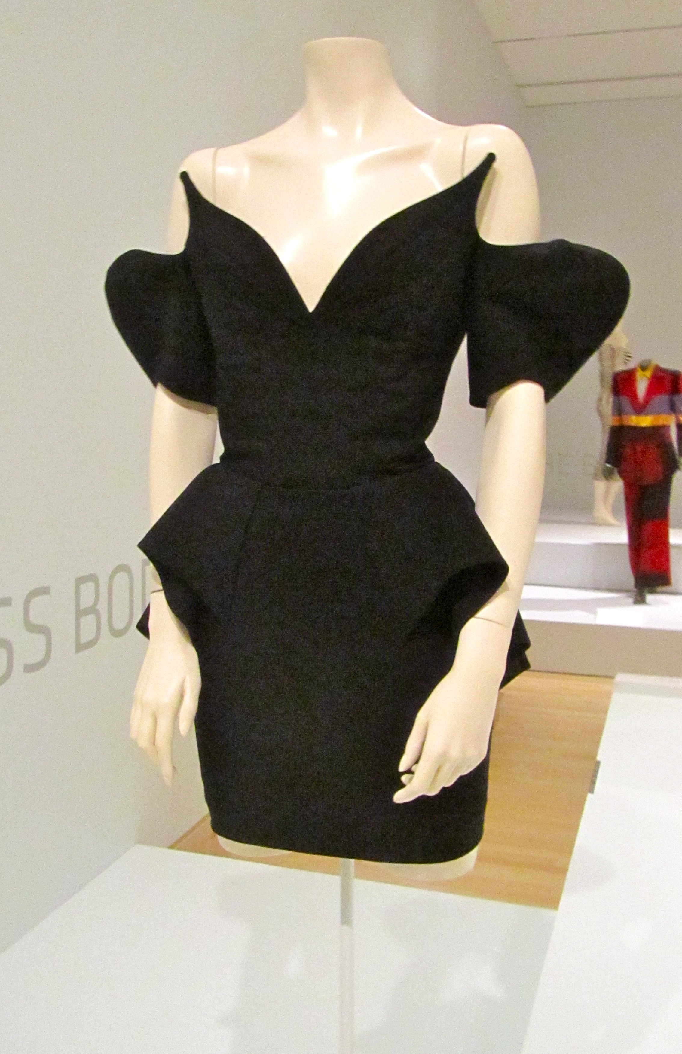 An evening dress by Thierry Mugler at the Indianapolis Museum of Art.